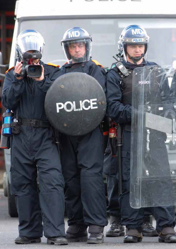 PSU of MOD Police Operational Support unit